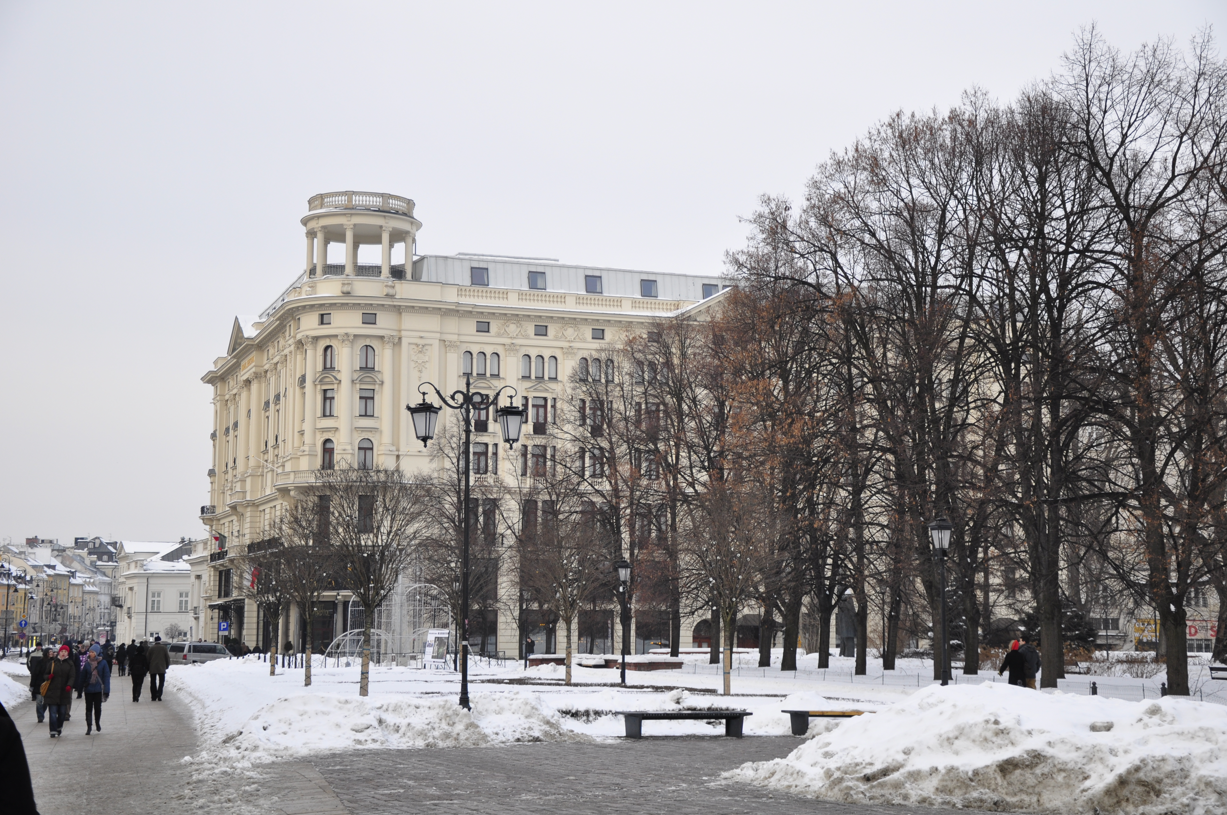 Waresaw, Nowy Swiat, Bristol